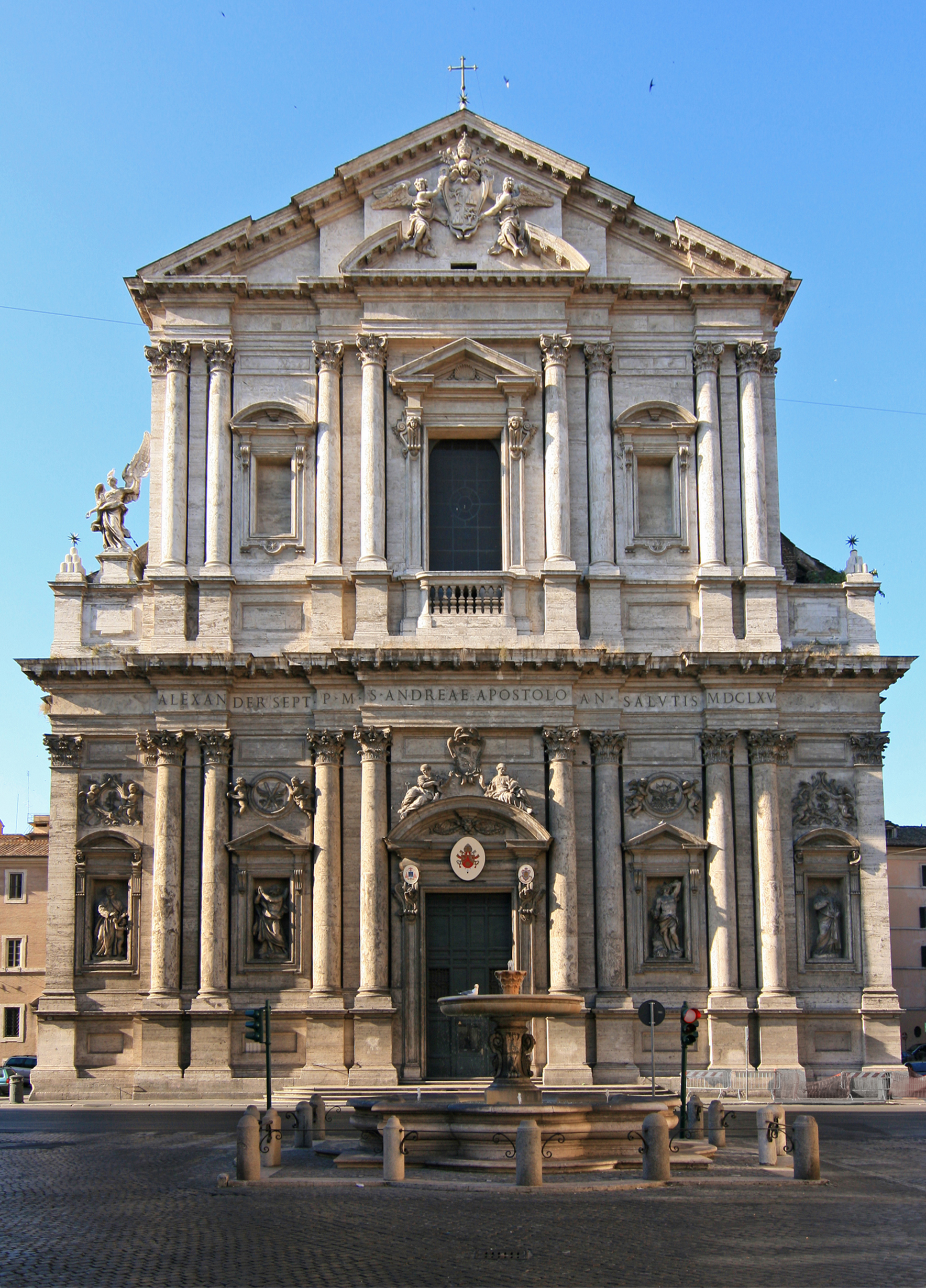 Church of Sant'Andrea della Valle, Rome.